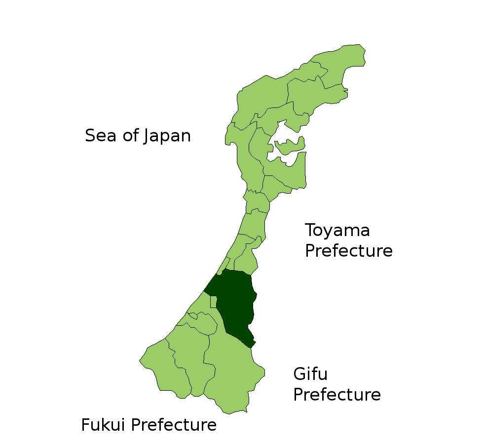 Location Map of Kanazawa in Ishikawa Prefecture, Japan